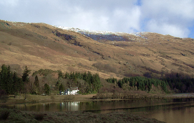 Glengyle House, Loch Katrine. This is the site of the birthplace of Robert Macgregor (Rob Roy). Born 1671?